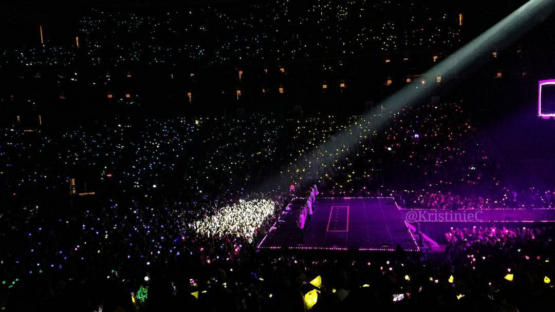 BTS The Wings Tour in Newark, 24 March 2017